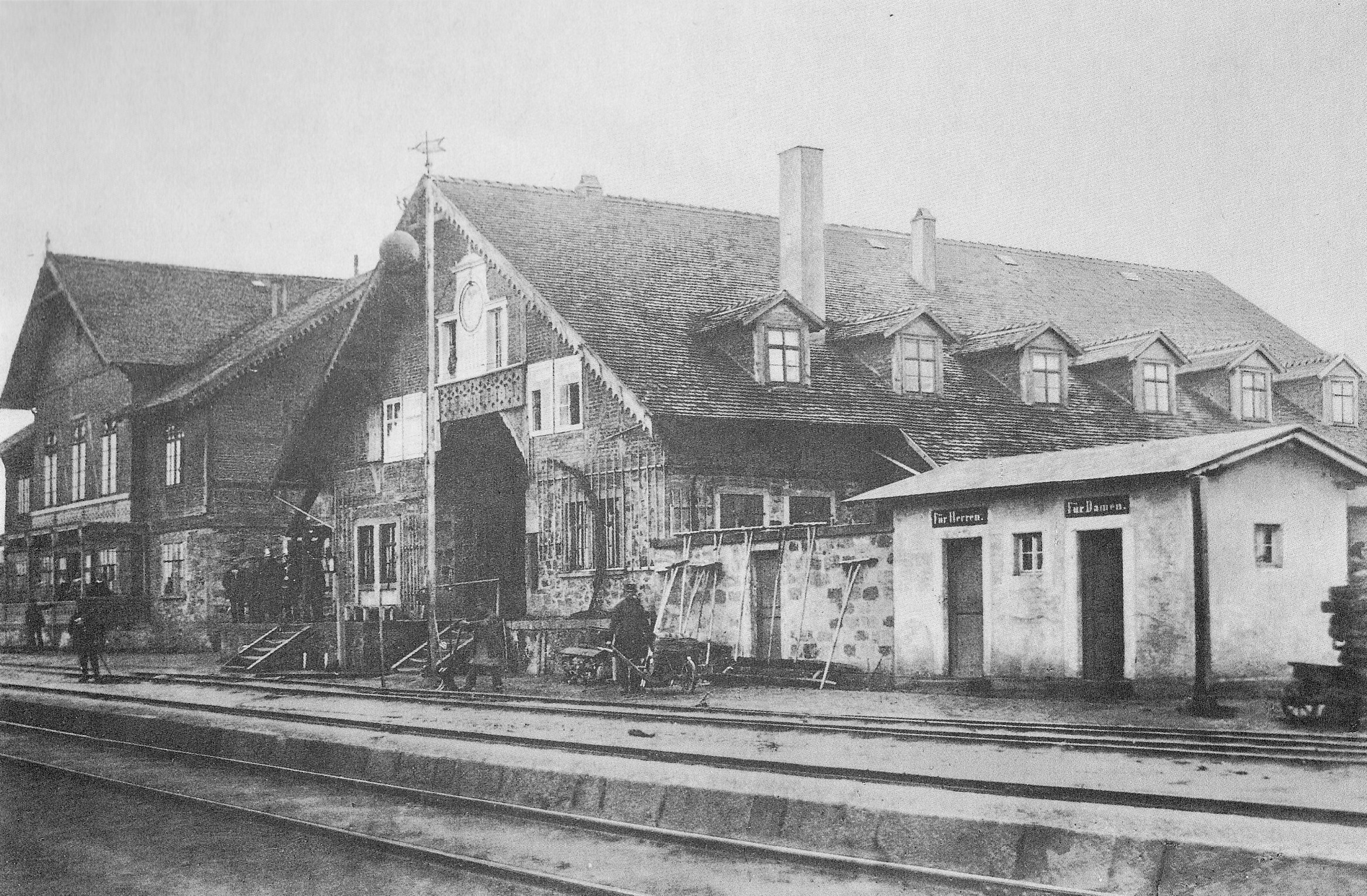 Station building Niederau at the railway line Leipzig-Dresden